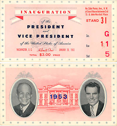 Eisenhower Nixon Inauguration ticket, 1953